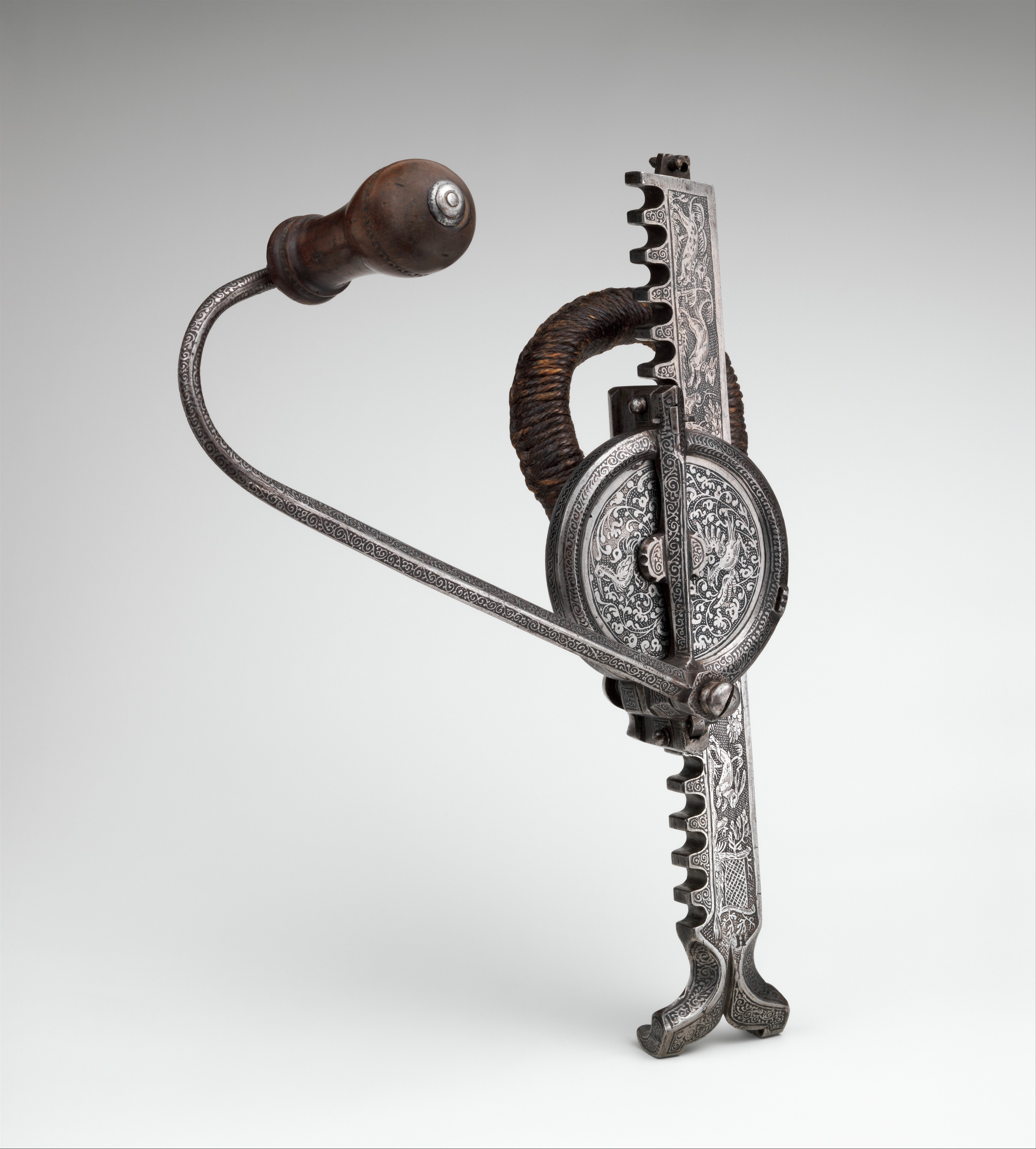 crossbow, German, probably Dresden; winder, possibly German; Crossbow (Halbe rüstung) with winder (Cranequin); Archery Equipment-Crossbows